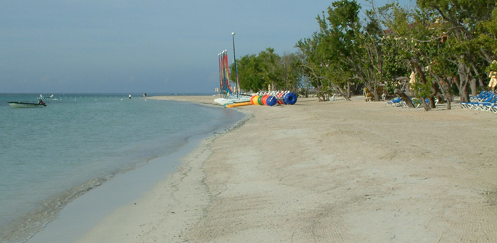 Whitehouse Beach at Sandals European Village and Spa, Jamaica. Photo by Op. Deo November 20,2005.